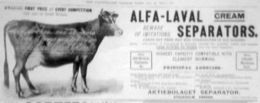 Alfa Laval advert from 1899